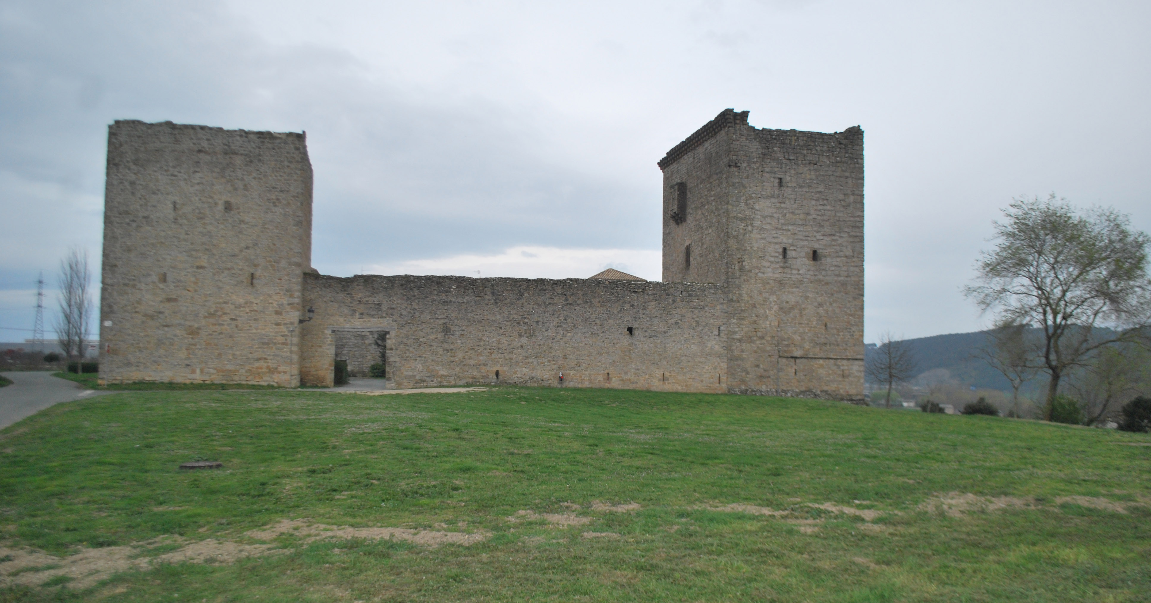 Castle of Arazuri (Navarre).